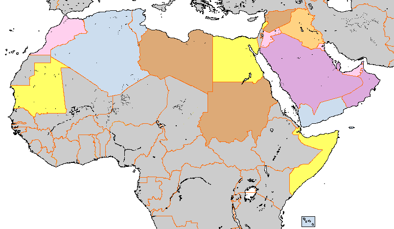 Governmental forms of the Arab League. Color-coding information can be found at Charter of the Arab League#Forms of government.